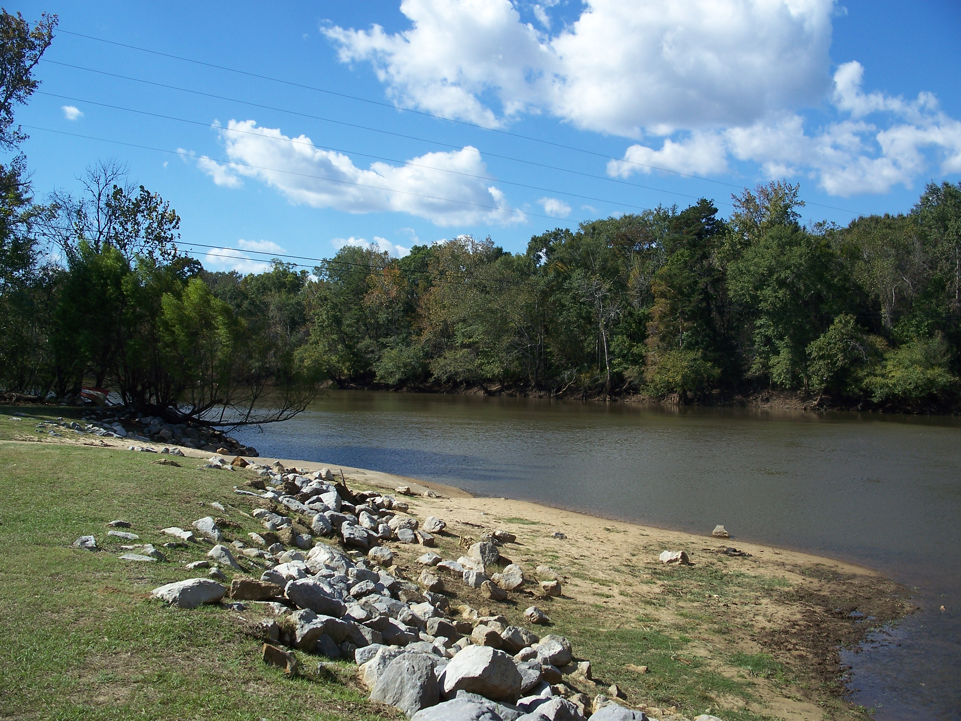 Choctawhatchee River: Near the US 90 bridge between Caryville, Florida and Westville, Florida, looking south